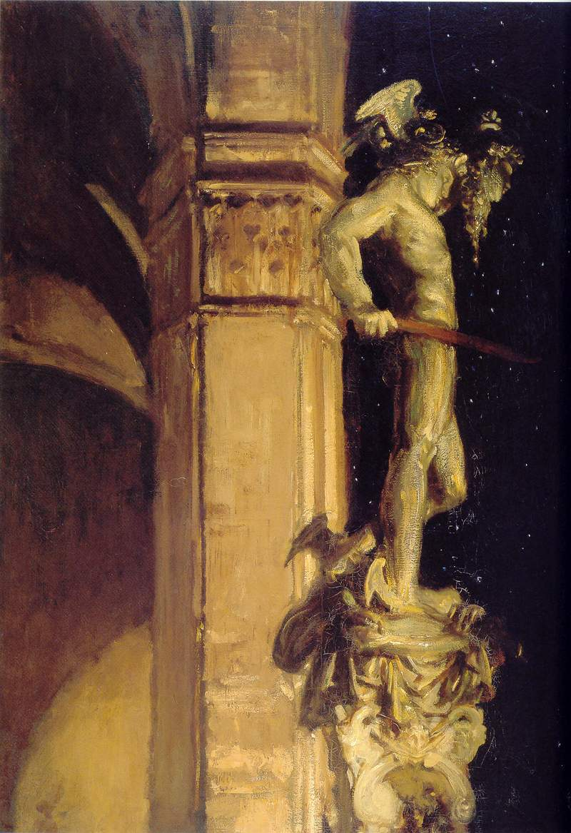 Statue of Perseus by Night Santa Barbara Museum of Art Santa Barbara, California Oil on canvas 128.9 x 92.4 cm (50 3/4 x 36 3/8 in.)